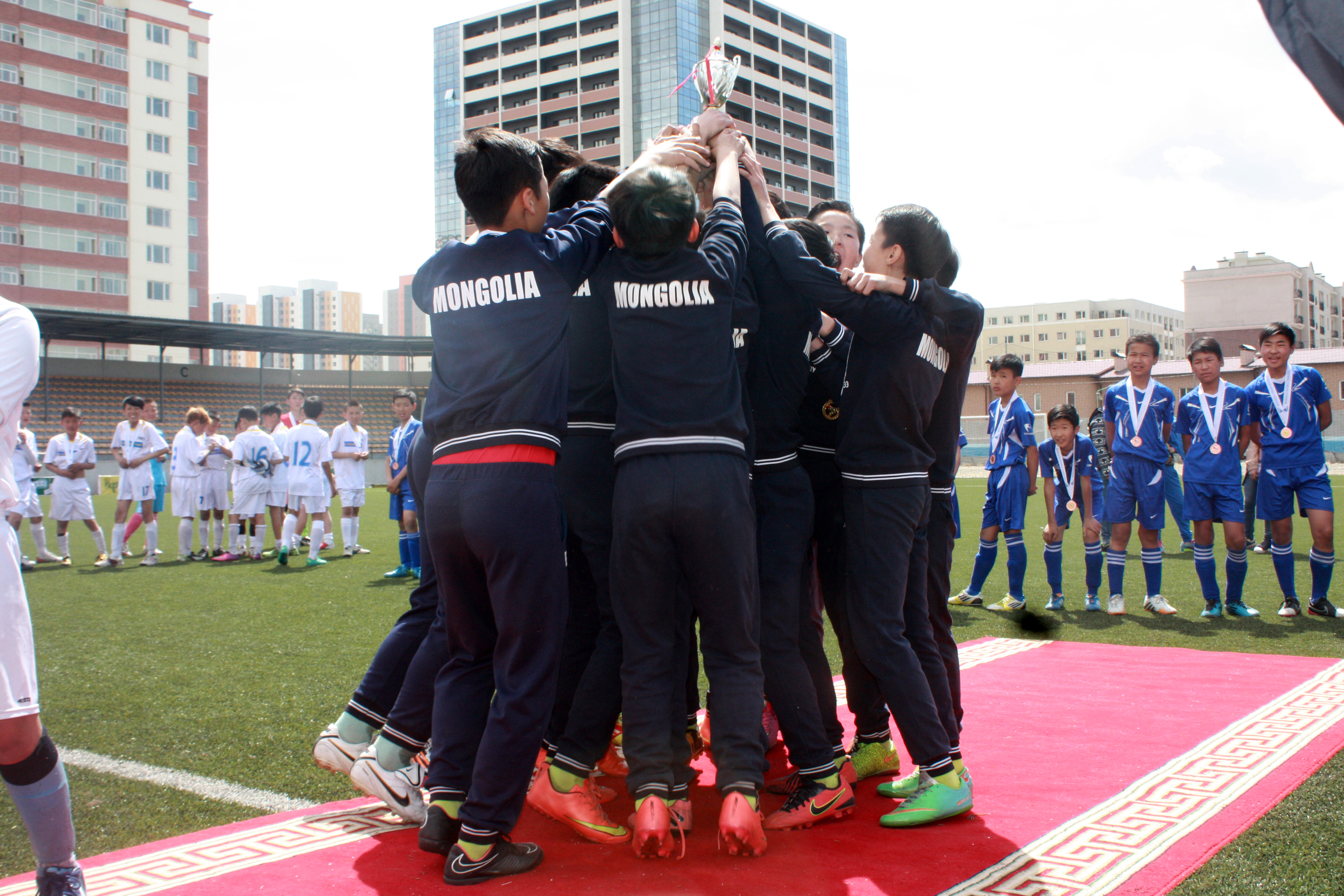 2015.05.16. МХБХ-ны өсвөр үеийнхний УАШТ-ийн 13 хүртэлх насны ангиллын аварга баг.